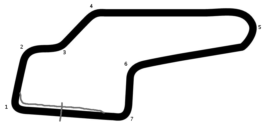 Watkins Glen short course from 1971-1991, before the Inner Loop was added.